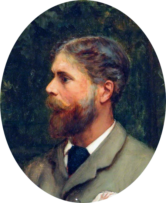 Self portrait oil on canvas, 34.5 x 29.7 cm 1890